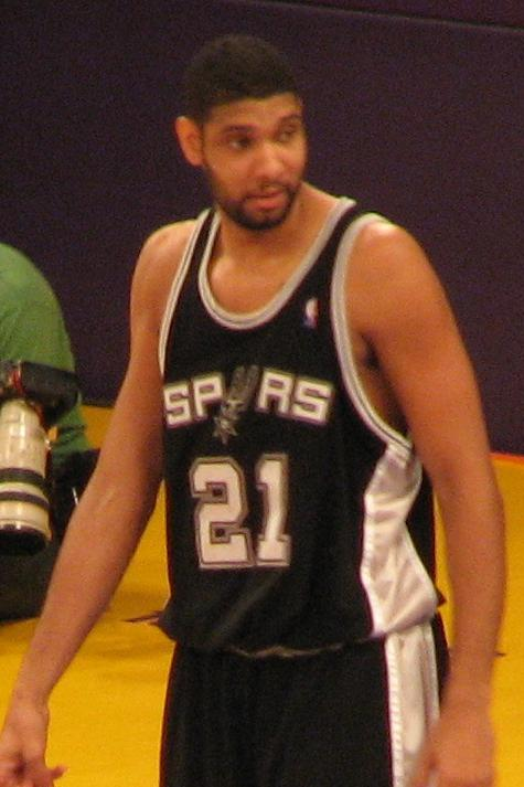 Tim Duncan, cropped